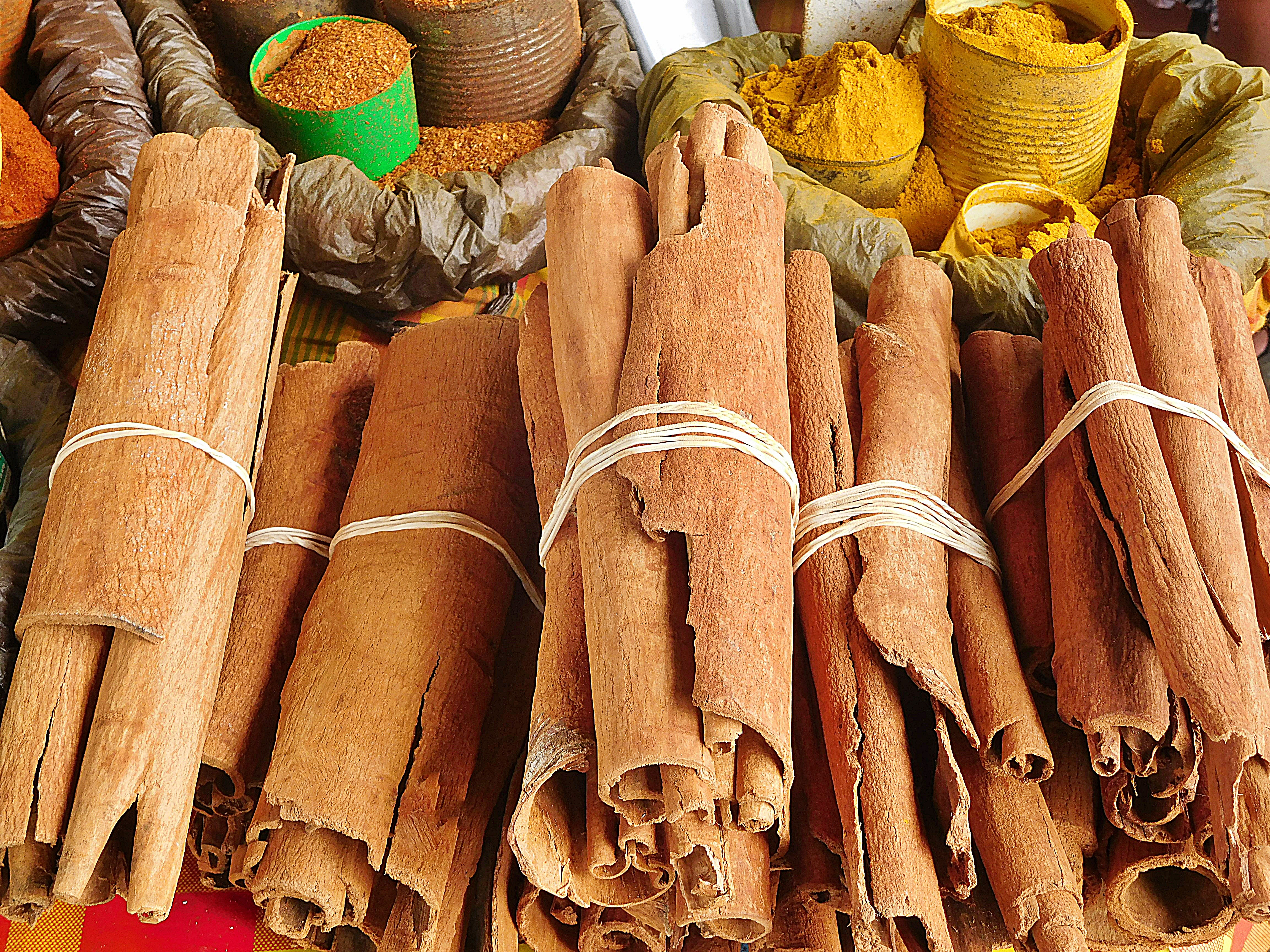 cinnamon sticks for sale at the Spice Market of La Darse in Guadeloupe